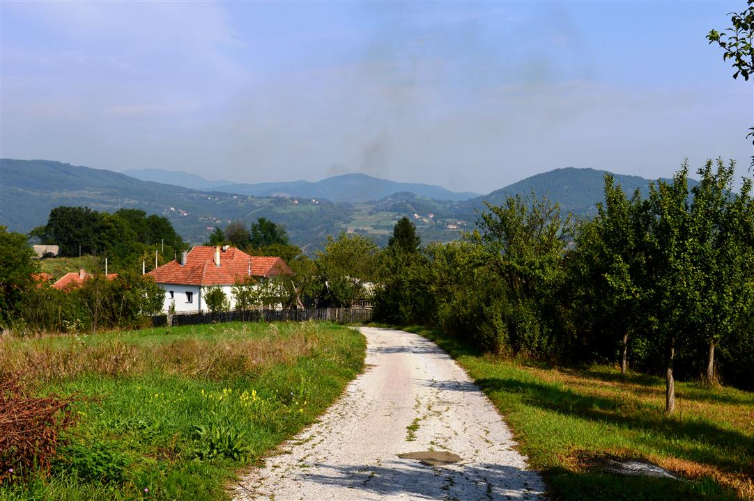 Raska Municipality - Korlaće